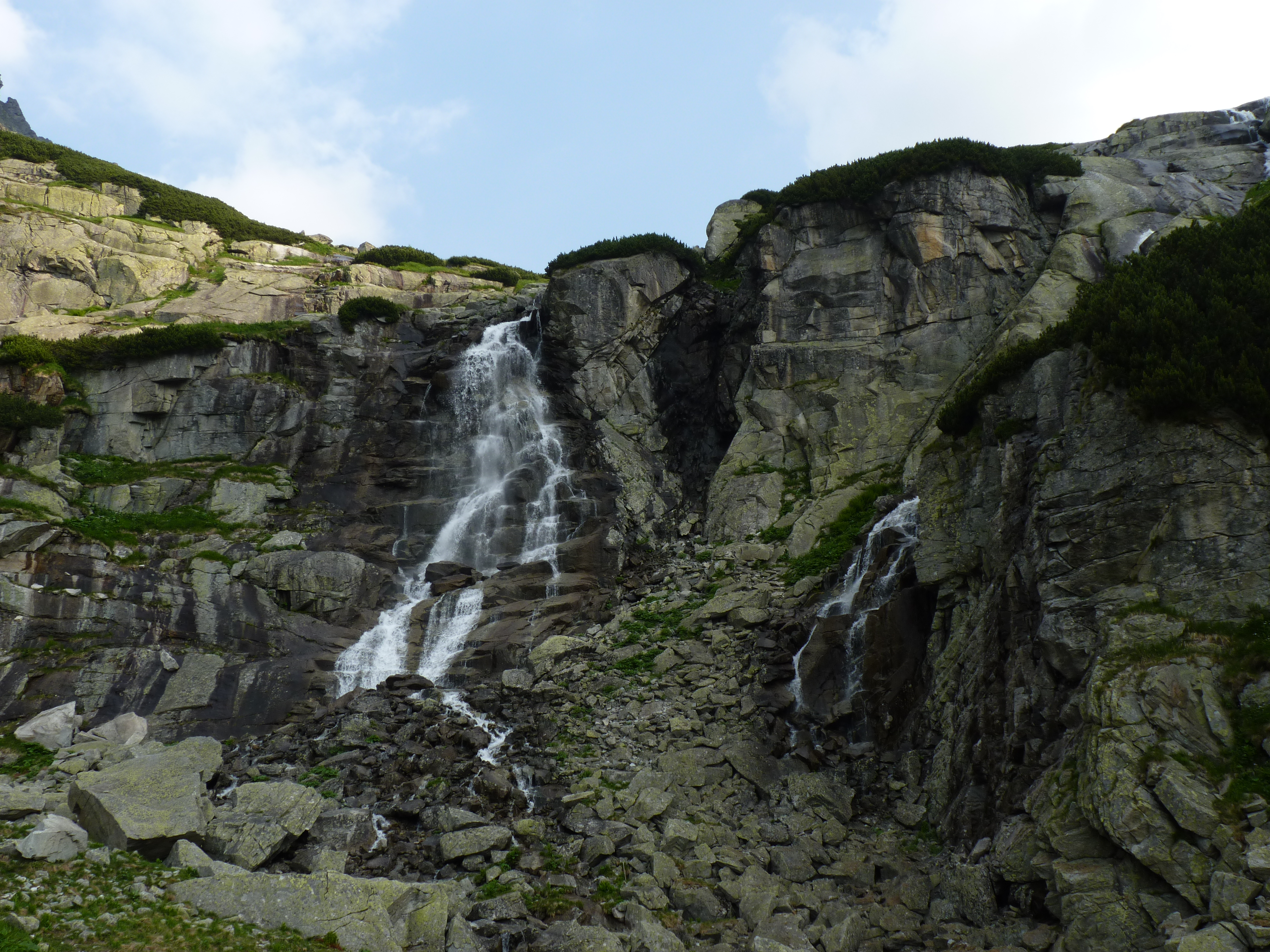 Mlynická dolina (valley), High Tatras, Slovakia